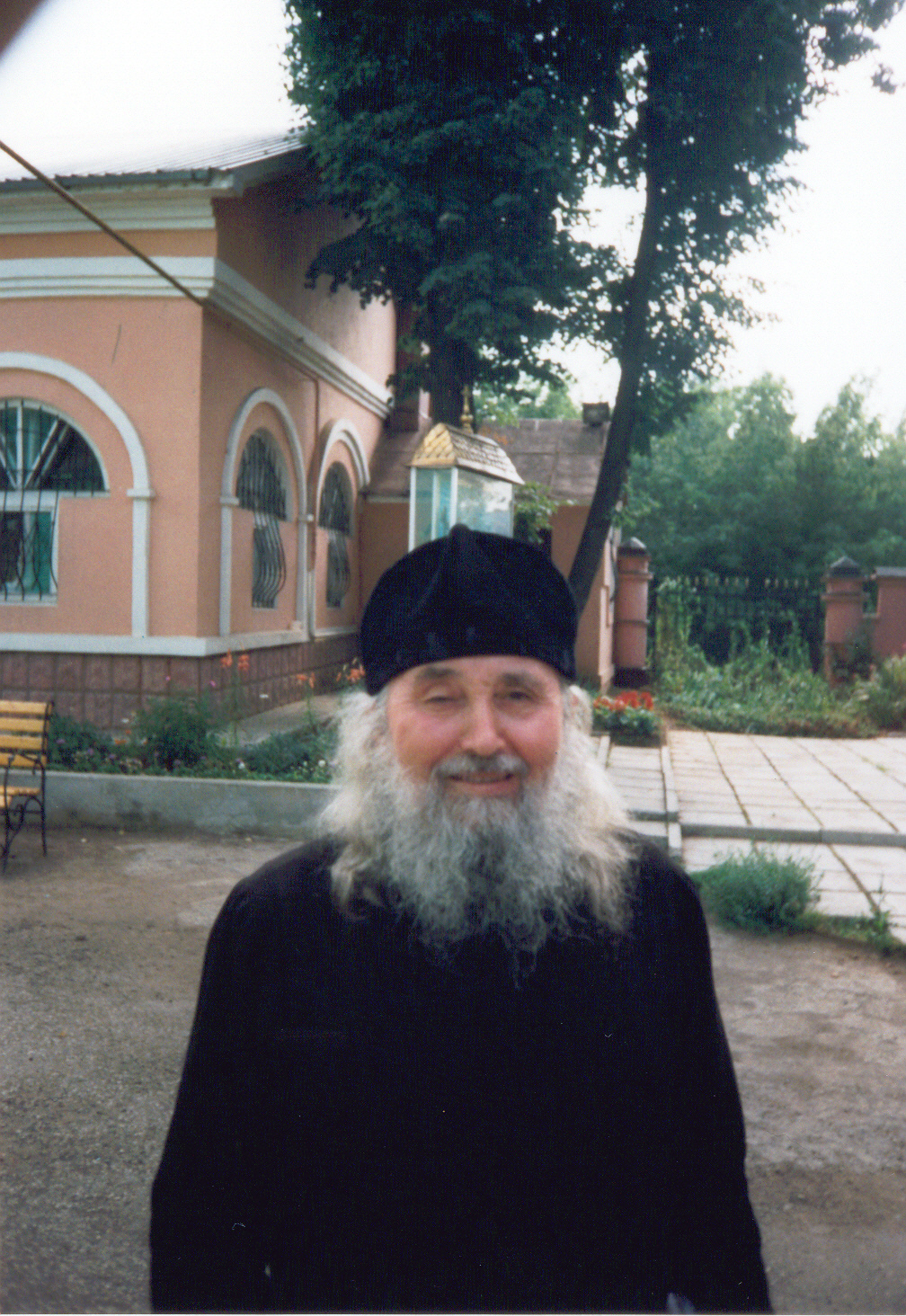 Mikhail Atamanov, an Udmurtian translator and priest.